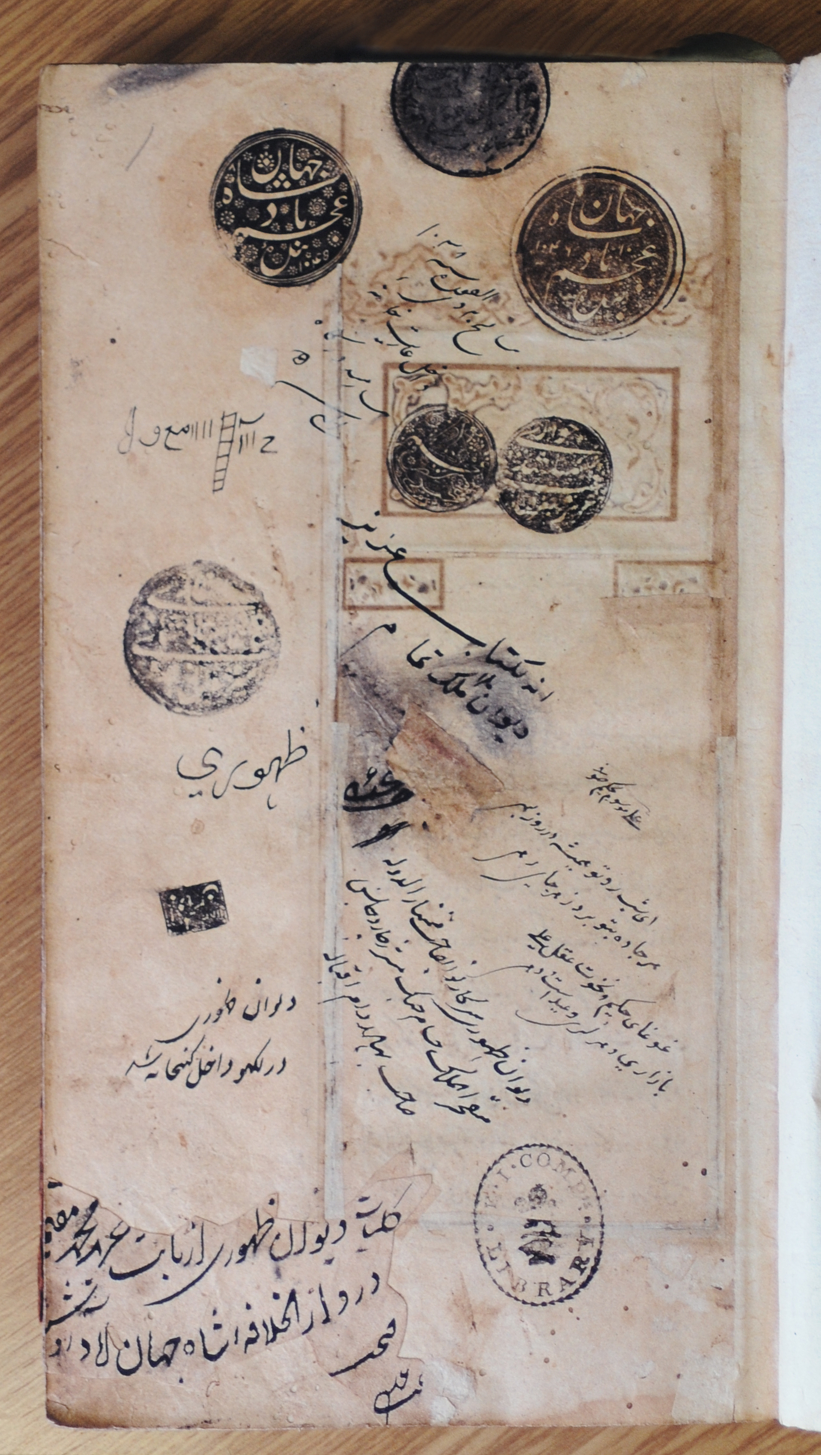 Kulliyyāt-i Ẓuhūrī, folio 1r (IO Islamic 327).